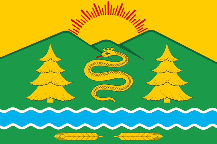 Flag of Holmogoyskoe rural settlement, Irkutsk Oblast, Russia